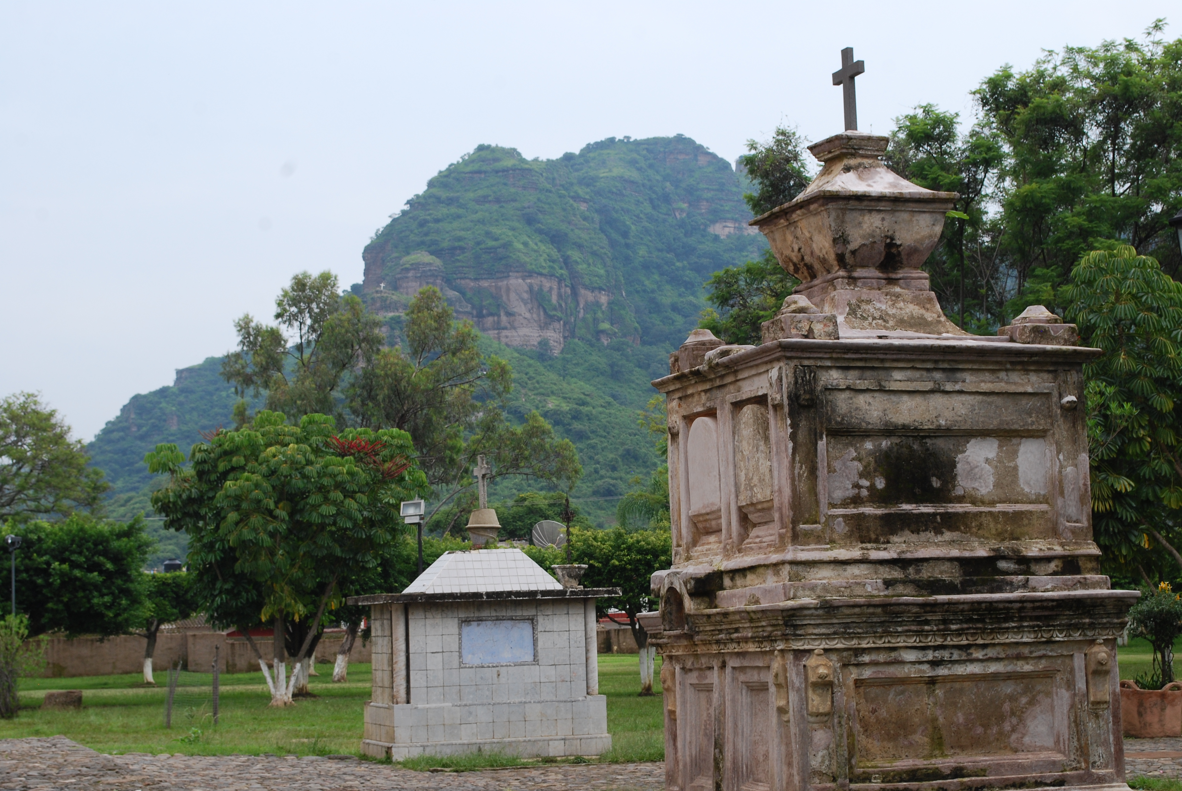 View of the Cerro de Sombrerito from the atrium of the Church of San Juan Bautista in Tlayacapan, Morelos, Mexico